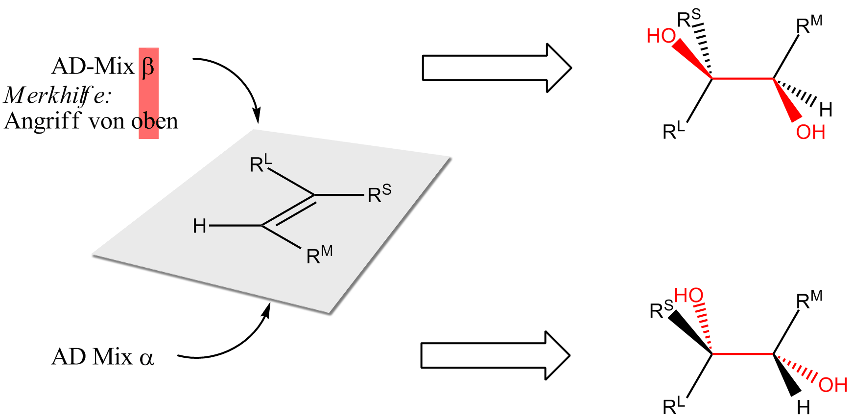 Attack site of the two AD mixes of the sharpless asymmetric dihydroxylation.